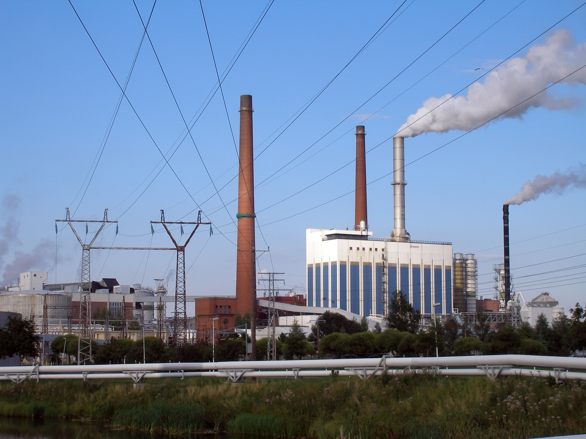 Tervasaari paper mill in Valkeakoski, Finland